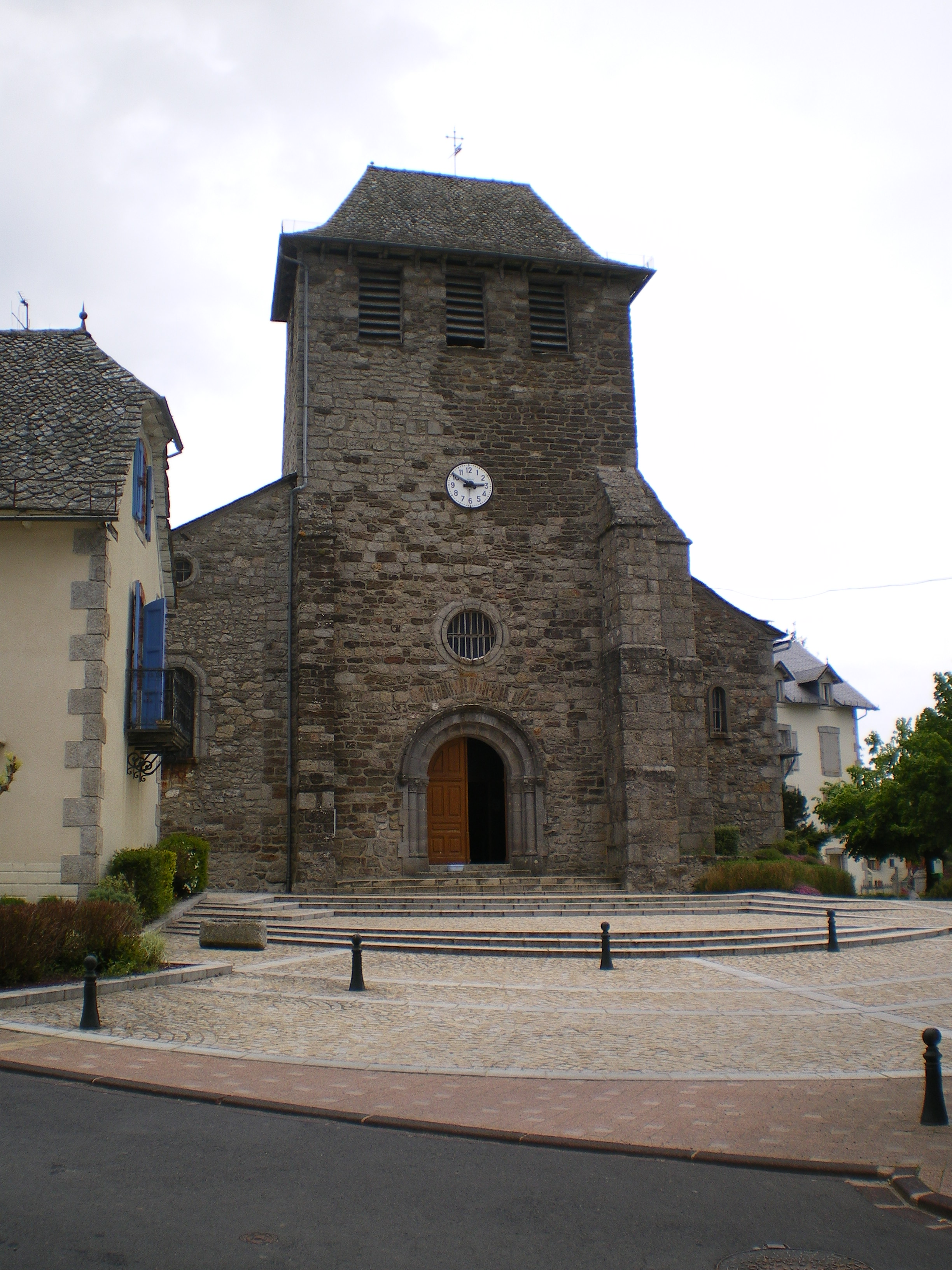 Saint-Mamet church, Cantal, France